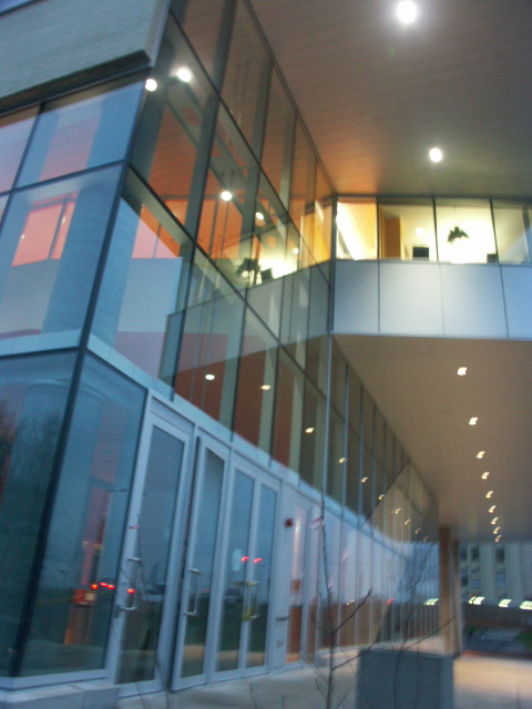 Polytechnique of Montreal, outside view of Lassonde buildings. Photo by: user:gene.arboit